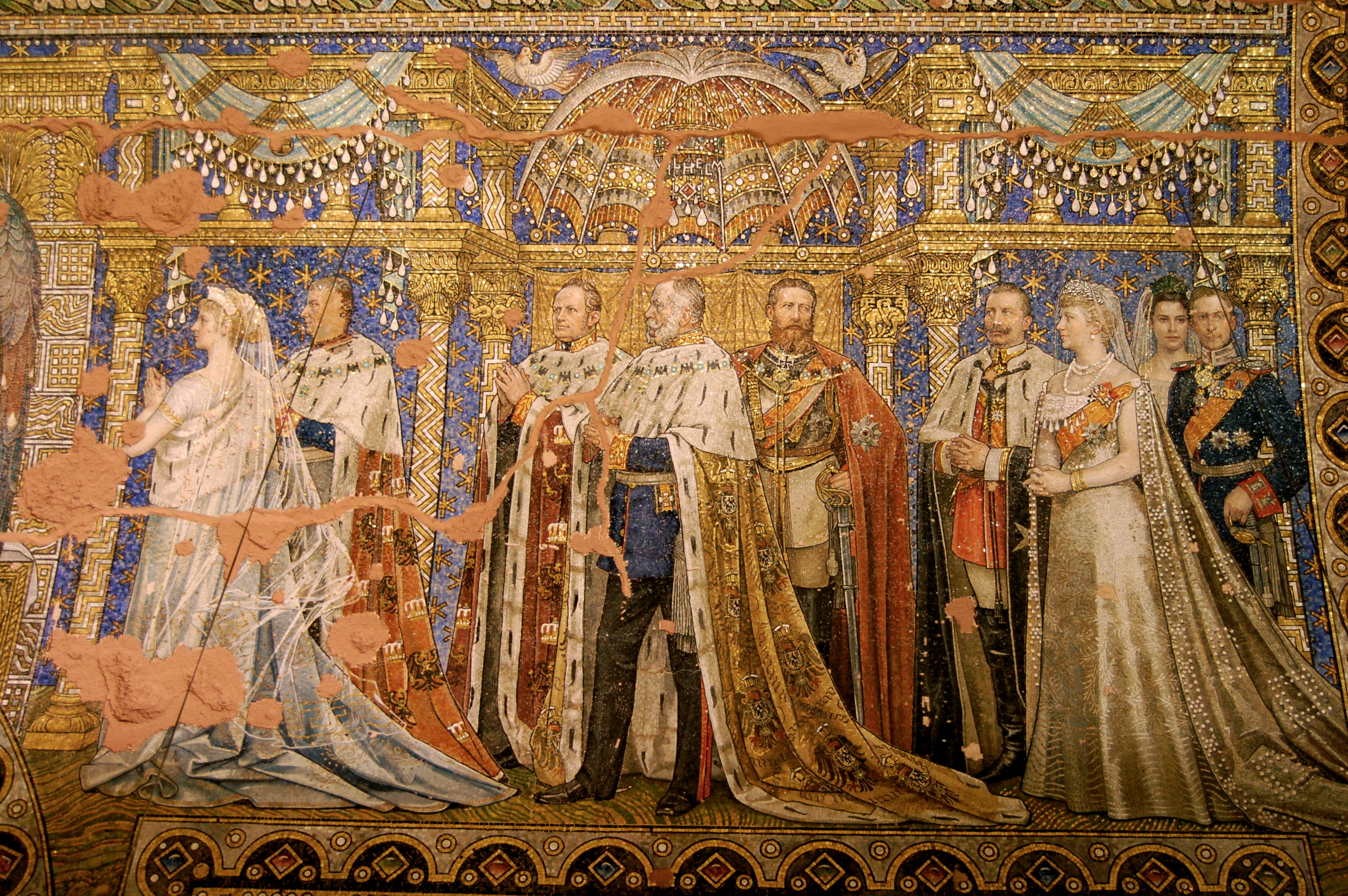 This mosaic in the Kaiser wilhelm Memorial Church ruin depicts several members of the Prussian royal family in a symbolic scene. Kaiser Wilhelm I is in the center, wearing Ermine. His son Friedrich III, who reigned 90 days in 1888 before dying of cancer, is at his right. Next is Kaiser Wilhelm II.